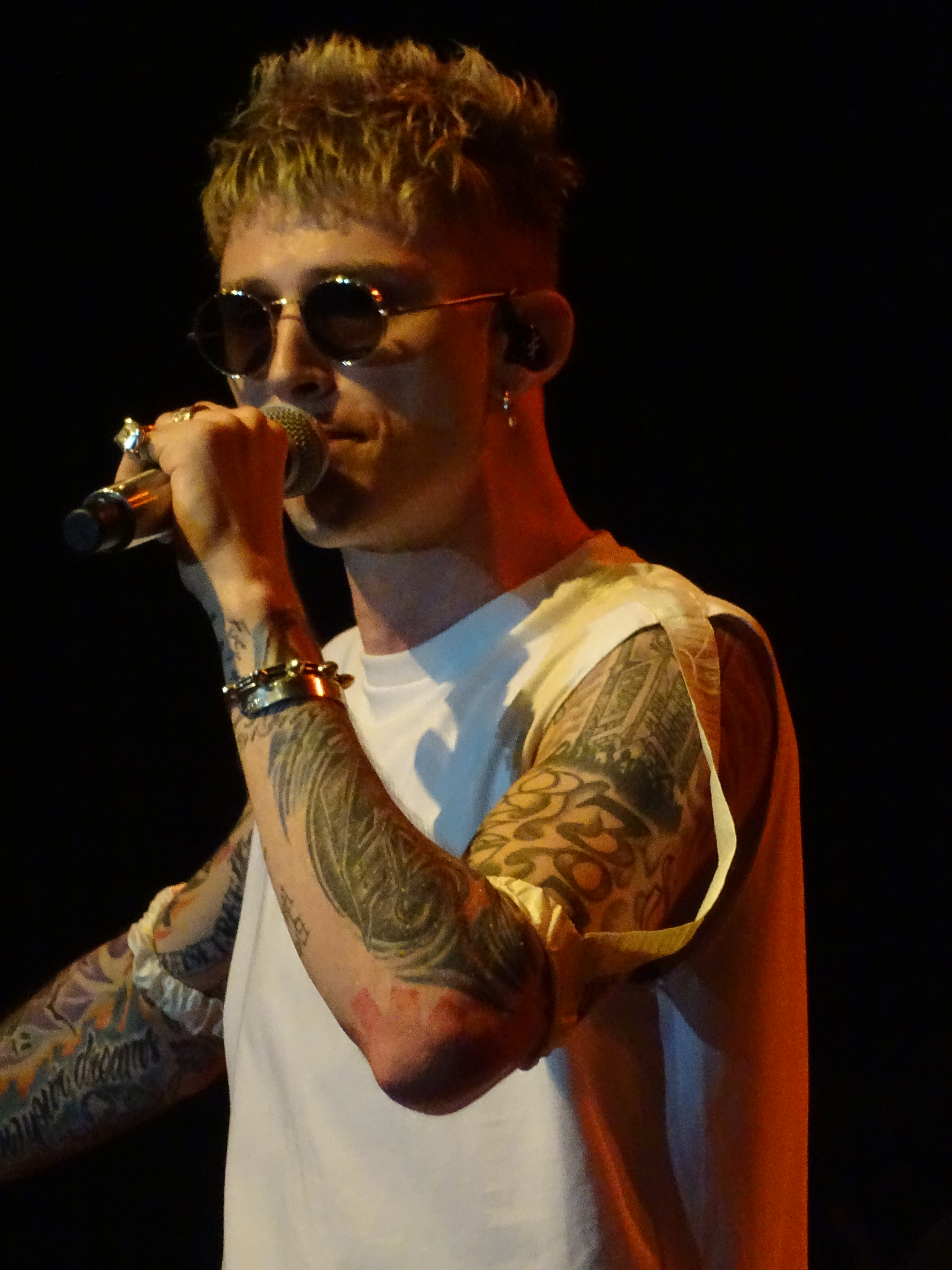 Machine Gun Kelly performing at Summerfest 2018, Milwaukee